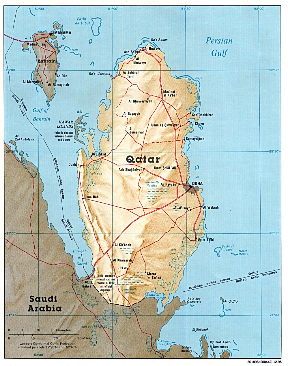 Qatar (Shaded Relief) 1995